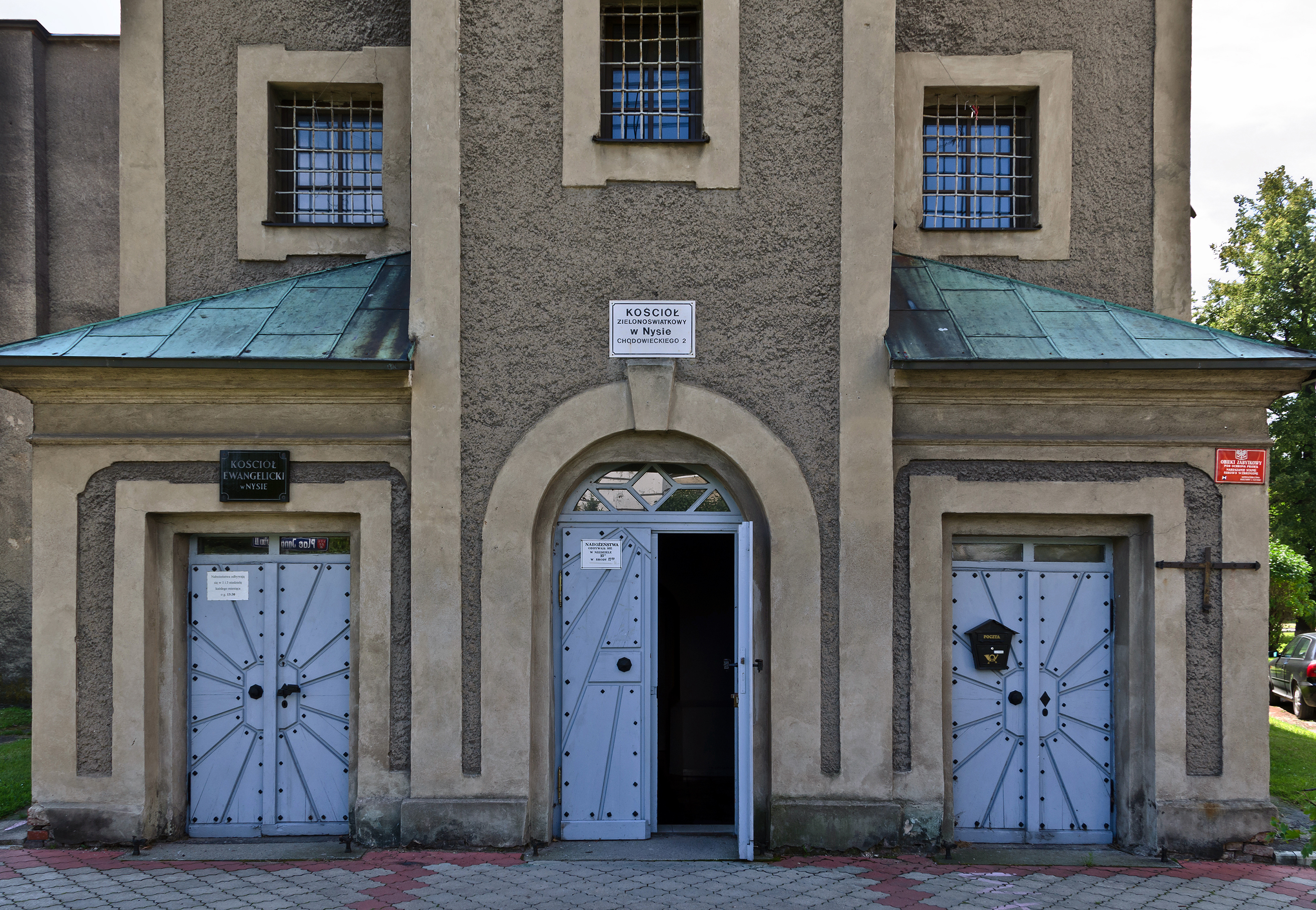 Protestant church in Nysa, built 1428, dedicated to Saint Barbara until early 19th century when it passed to the Protestant community, main entrance